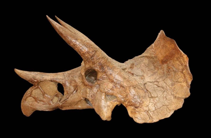 Triceratops prorsus skull - holotype YPM 1822